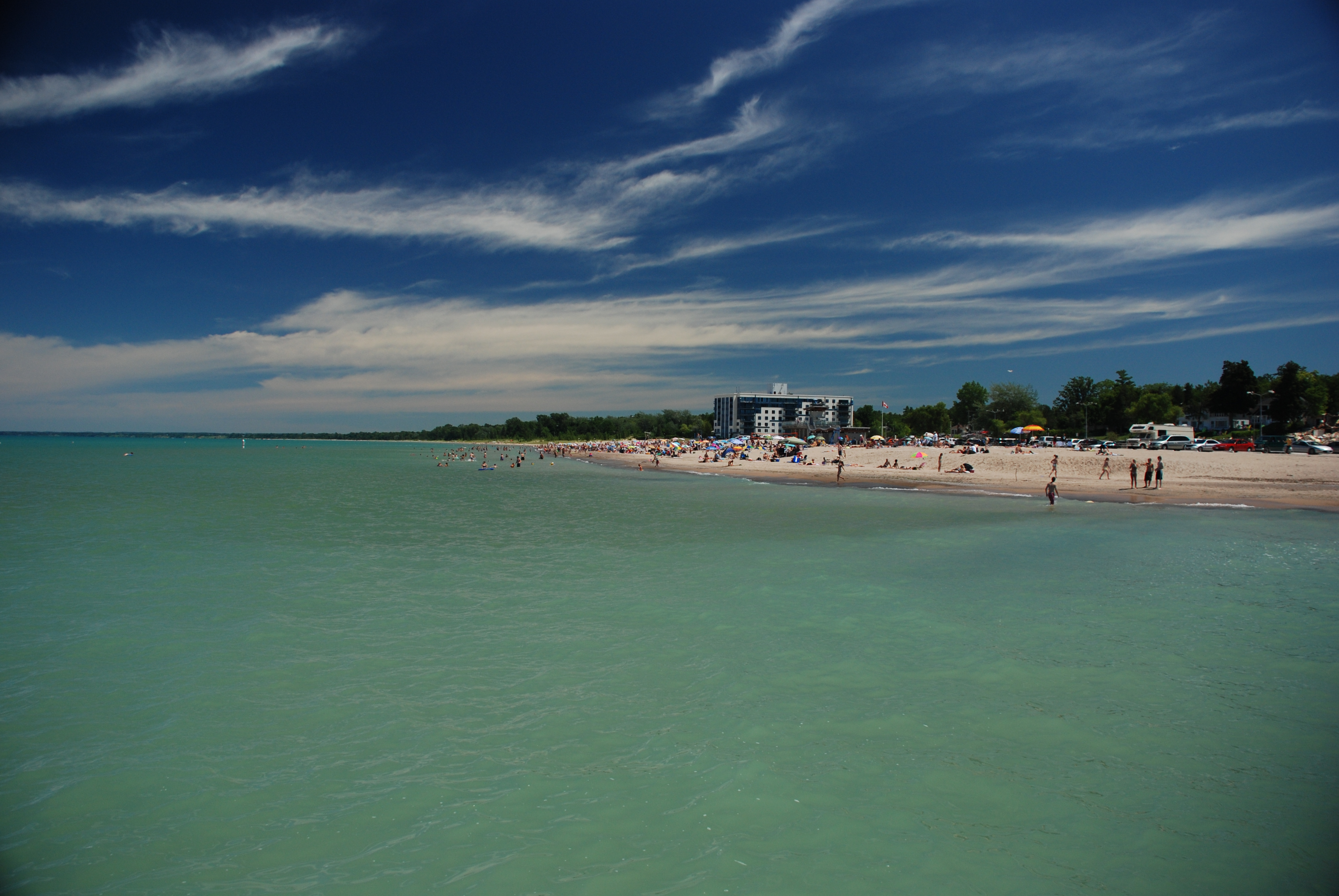 Grand Bend, Ontario. The beach seen from the pier. Image taken using a circular polarizer.